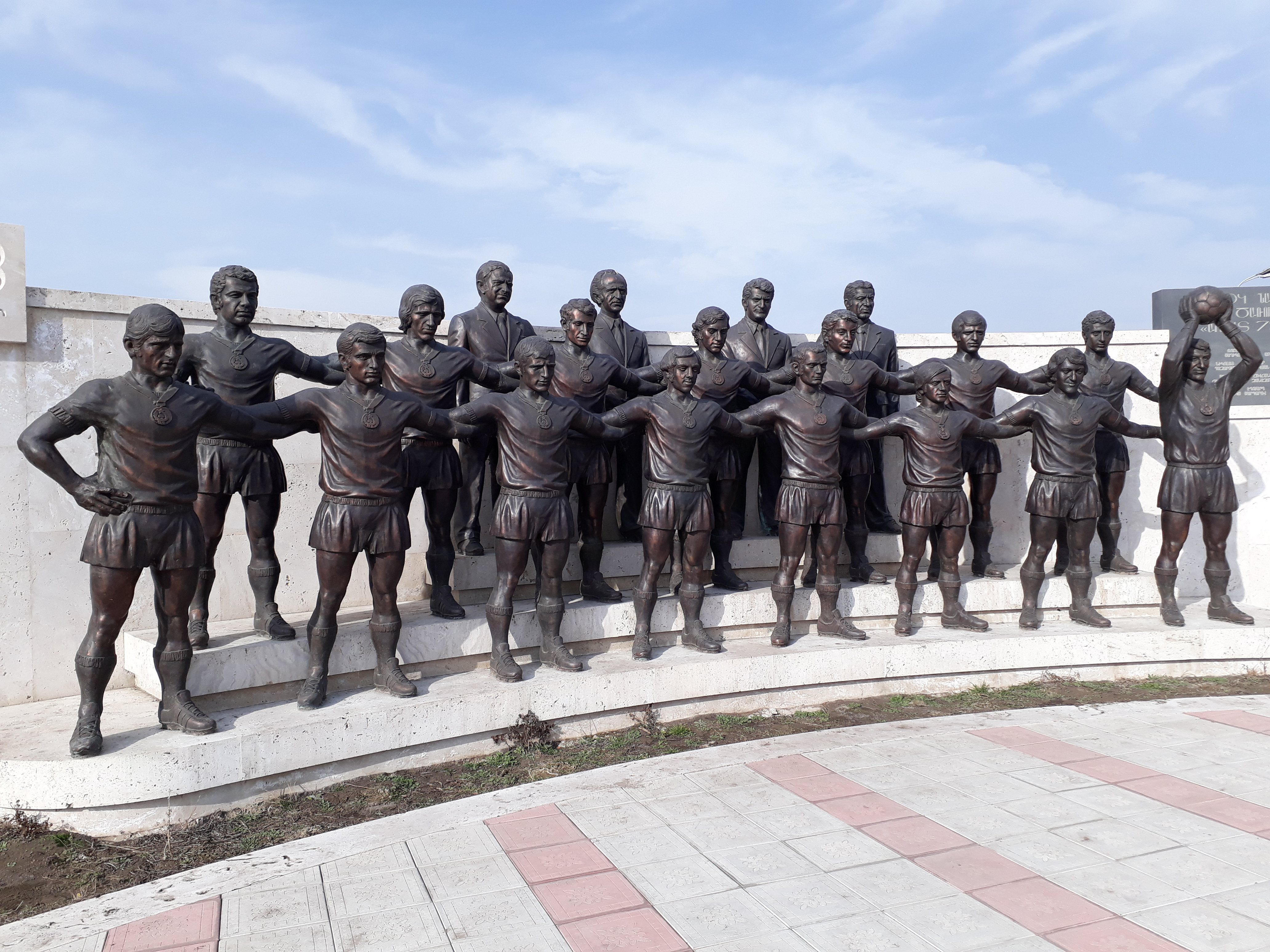 Sculpture dedicated to the football team "Ararat Yerevan" which won the Soviet union championship in 1973. It is located nearby the Hrasdan stadium in Yerevan, Armenia.